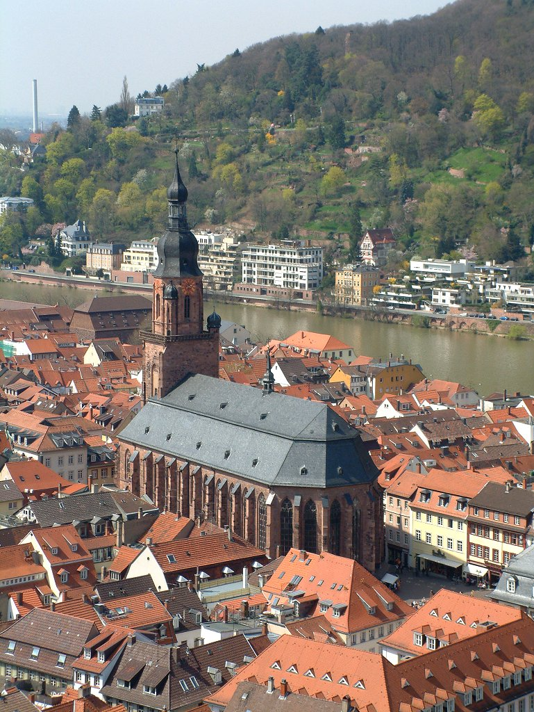 Author: Hans Lohninger Description: The Heiliggeistkirche of Heidelberg seen from the Castle. Source URL